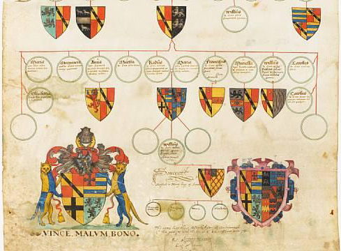 An Illuminated Elizabethan pedigree of the de Euro family of Northumberland, barons of Warkworth and Clavering. By Robert Glover, Somerset Herald, signed and dated in his calligraphic hand & illuminated with armorial shields on four skins of vellum.